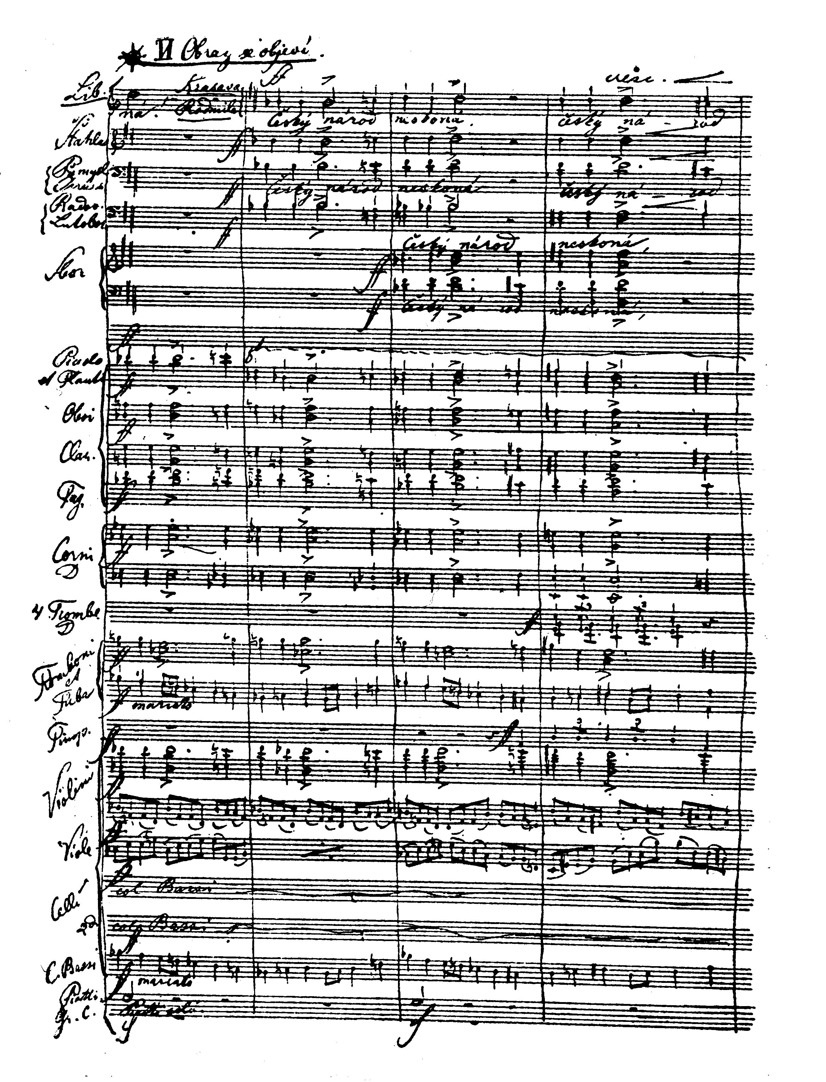 Bedřich Smetana: Libuše, a page from the full score, the end of Libuše's prophecy ('Český národ neskoná')